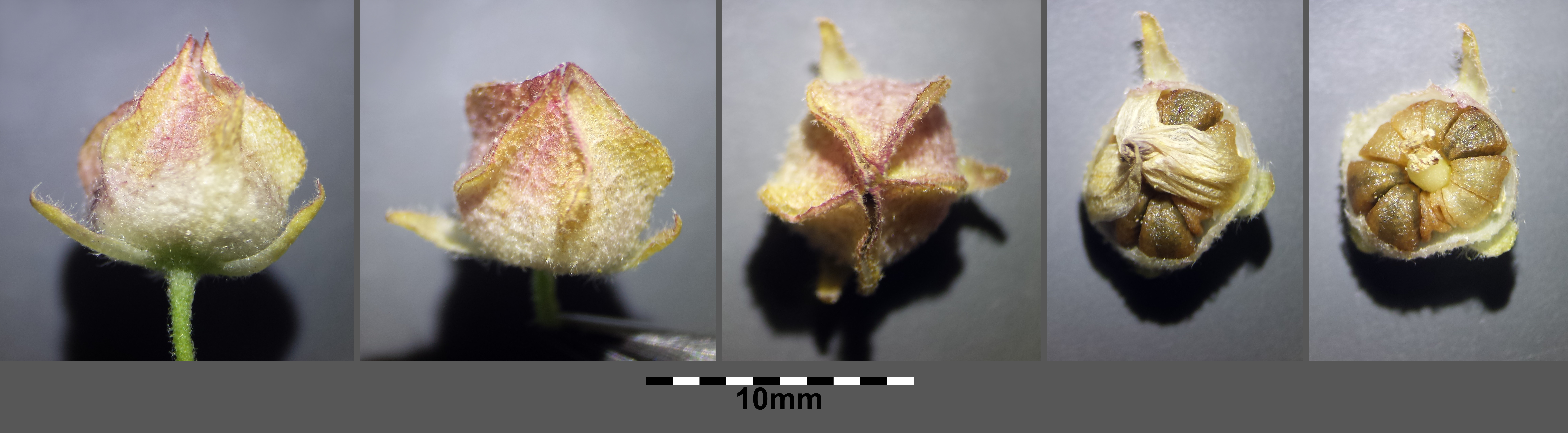 Fruit, opened at right side Taxonym: Malva verticillata ss Fischer et al. EfÖLS 2008 ISBN 978-3-85474-187-9 Location: Steinberg near Niederhollabrunn, district Korneuburg, Lower Austria - ca. 375 m a.s.l. Habitat: field of pumpkins